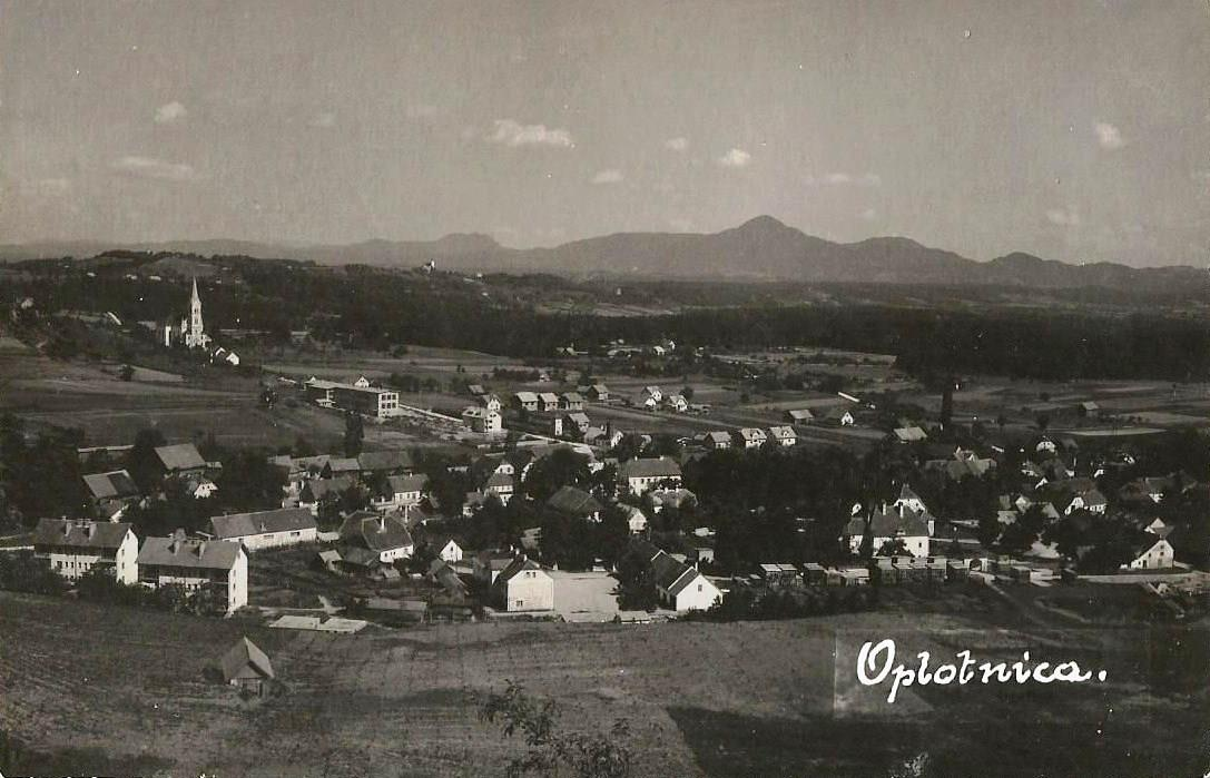 Postcard of Oplotnica.